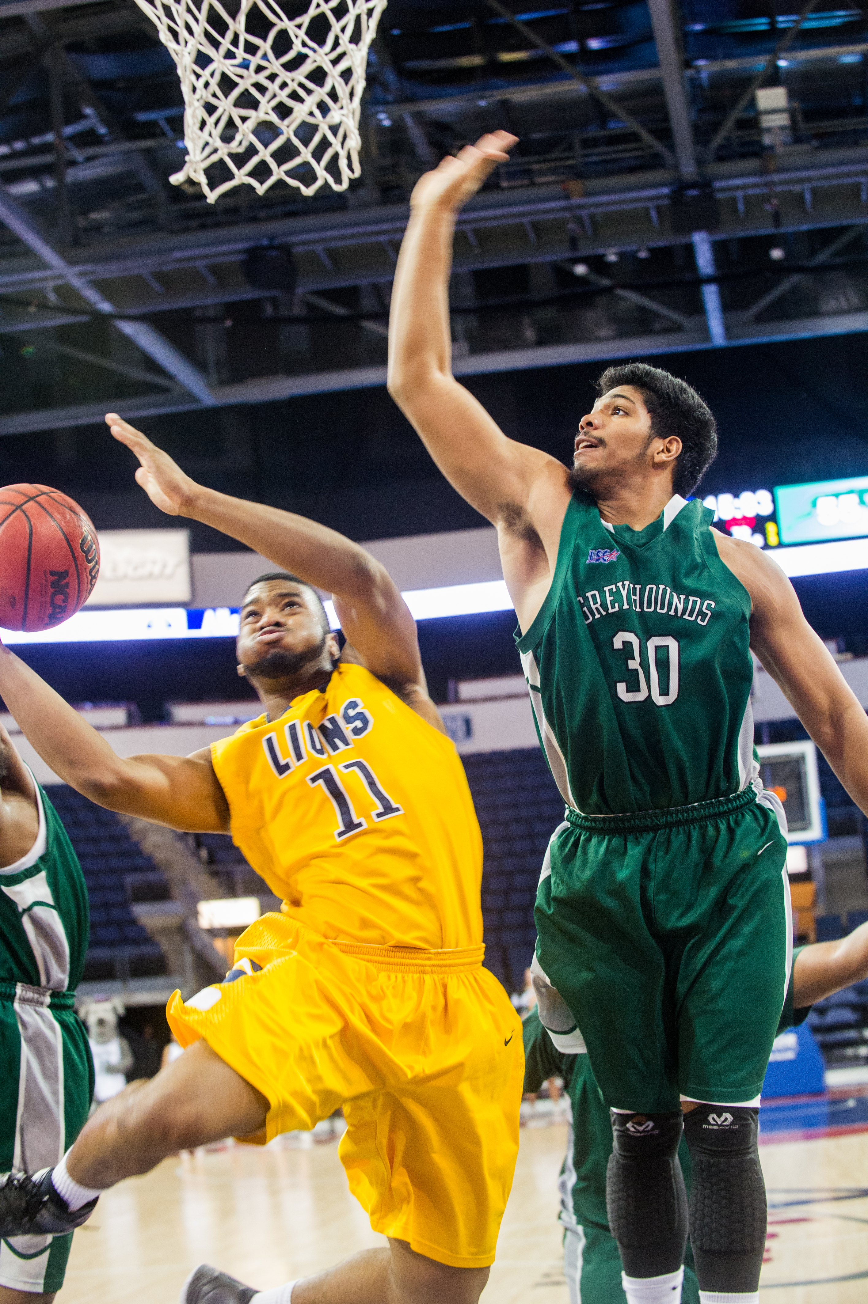 14098-LSC Bball tournament-9887 2013–14 Texas A&M–Commerce Lions men's basketball team